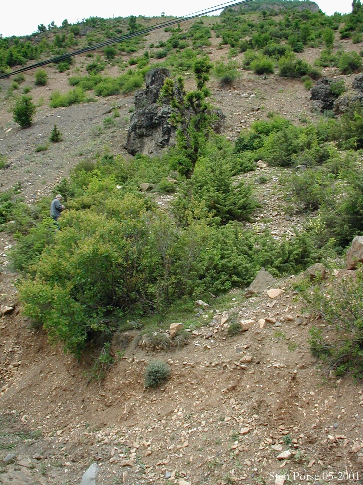 Maquis shrubland with Myrtus communis in Anatolia - near Baiburt, Turkey